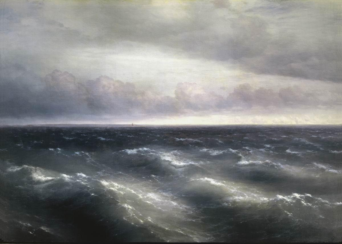 Aivazovsky was the best known and most celebrated Russian artist of marine paintings. The sea appears in his paintings as something multifaceted. At times it is an element which is not subjected to any laws and which shatters man; at other times it is tempting in the distance, a symbol of Romantic dream. The viewer beholds an endless expanse of sea and infinite heavens above it. In the foreground there is a wave with whitecaps of foam – the “Aivazovsky wave” as his contemporaries called it. The palette is unusually rich. It brings together greens, silver tones, emerald tints and extends to the darkening deep blues at the horizon. In the centre we see a lone sailboat, symbol of man’s insignificance before the universe and at the same time a sign of the Romantic Wanderlust.